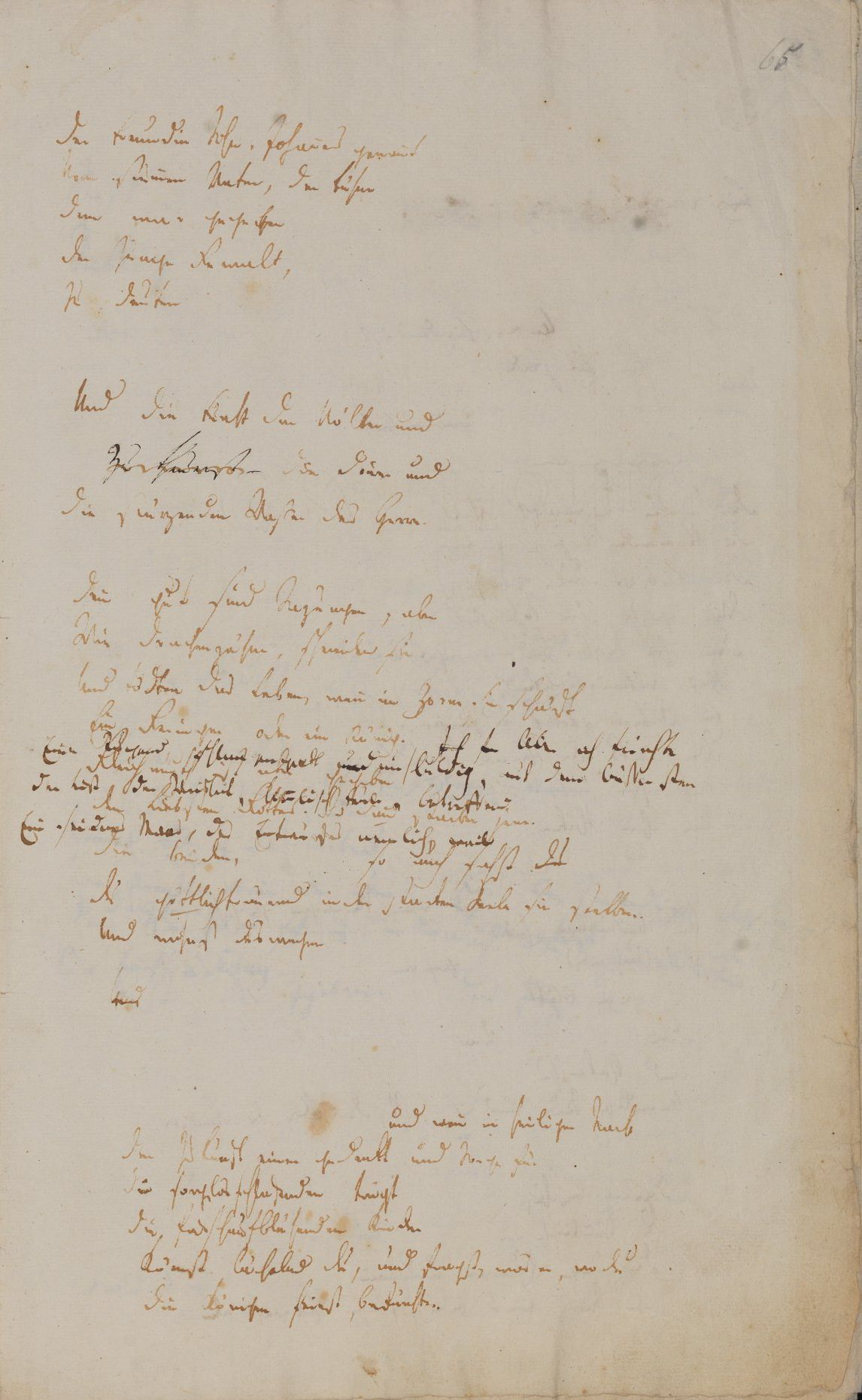 Manuscript by Friedrich Hölderlin "An die Madonna" page 3